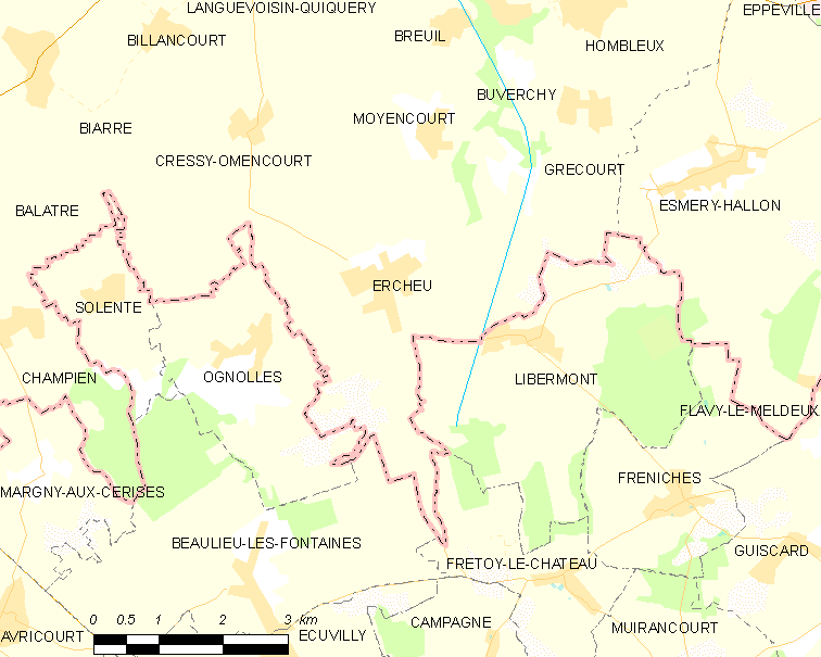 Map of French municipality Ercheu